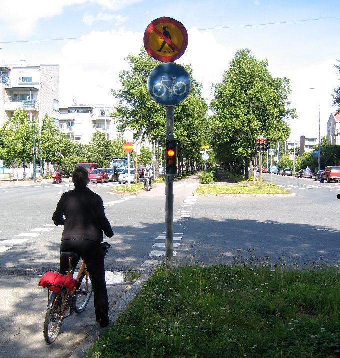 Bicycle traffic light, Helsinki, Käpylä, 1 August 2007. Bicycles have their own line and traffic lights.